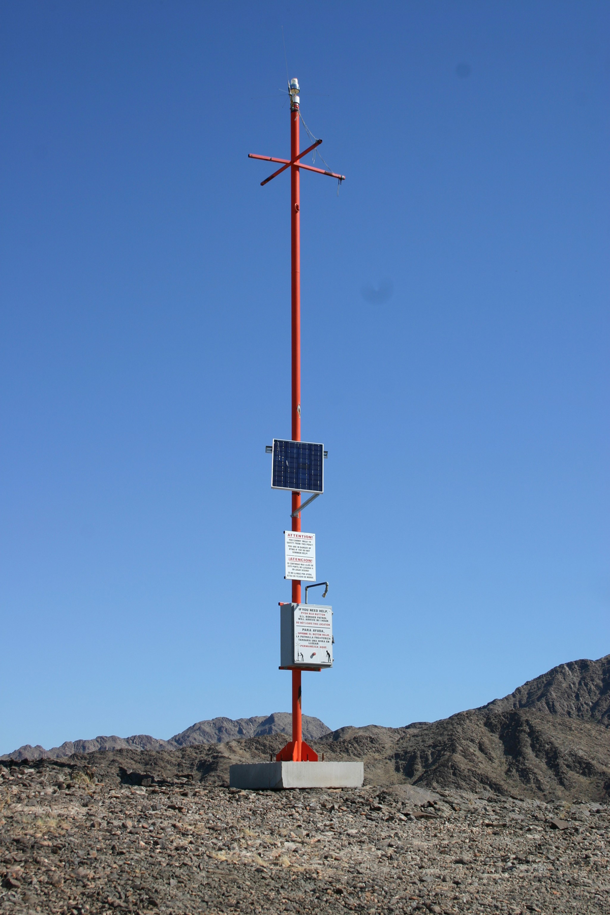 U.S. Customs and Border Protection Agency rescue beacon, deployed at remote locations along the U.S.-Mexico border.